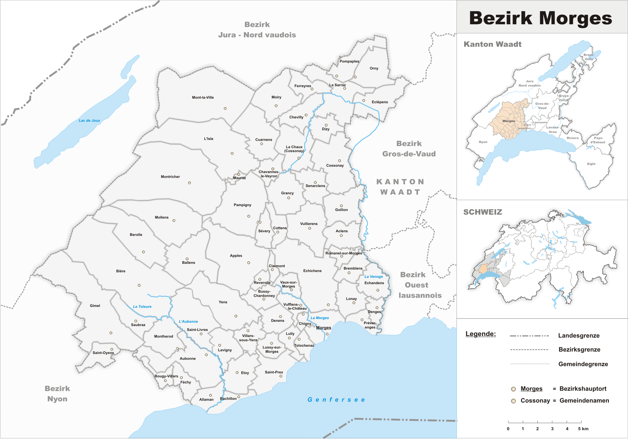 Municipalities in the district of Morges